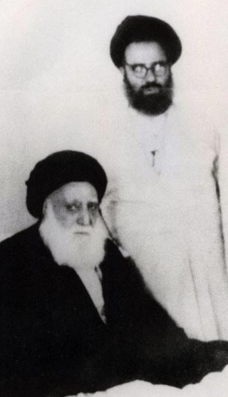 Jamal al-Din Golpayegani and his sons, Najaf, Iraq - 1950s. Stanging people from Left to right: Muhammad, Ahmad, Ali and Hussein